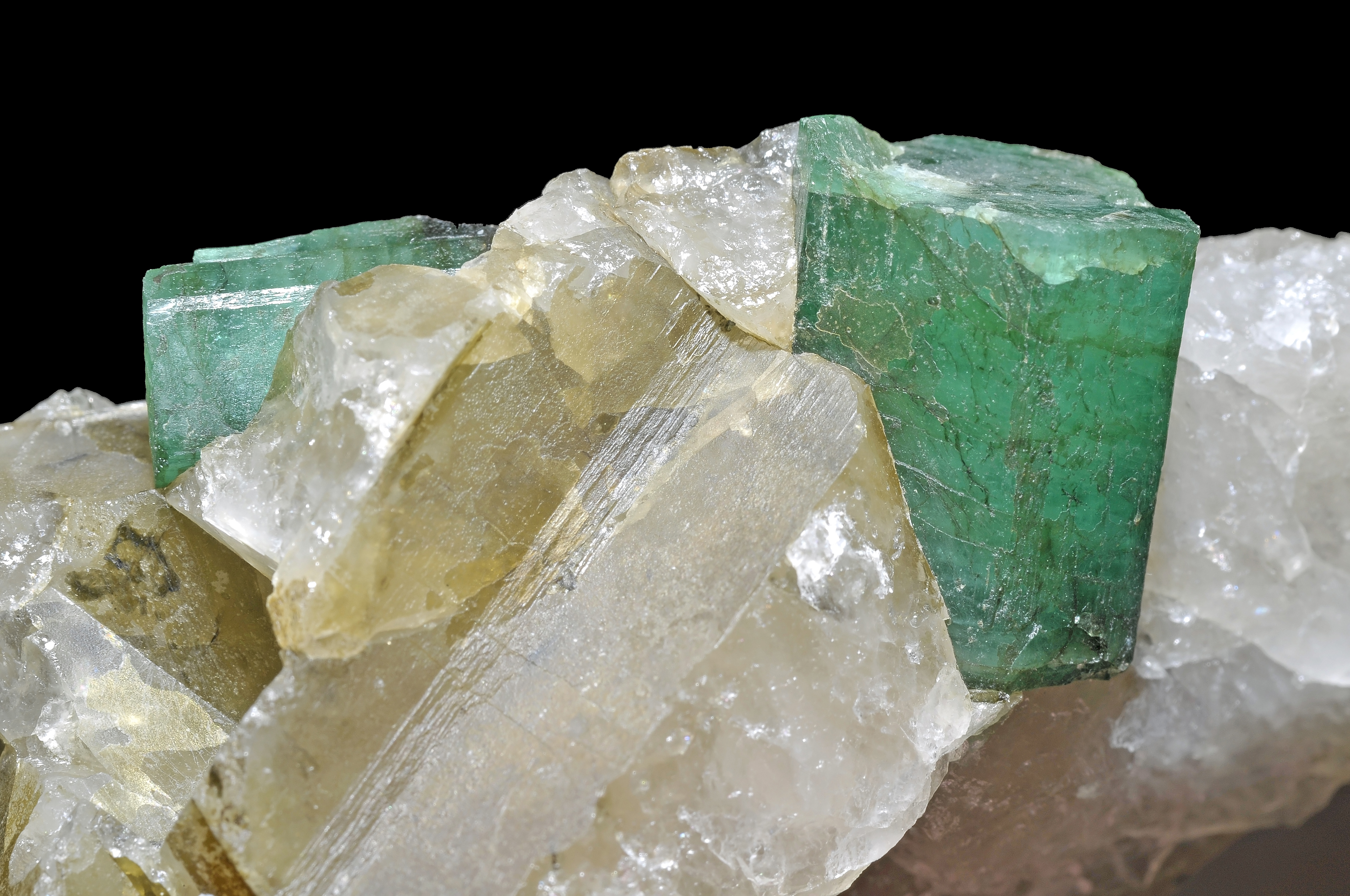 crystals of beryl var. emerald on quartz : Carnaiba Mine, Pindobaçu, Campo Formoso ultramafic complex, Bahia, Brazil - crystals : 17 mm and 14 mm